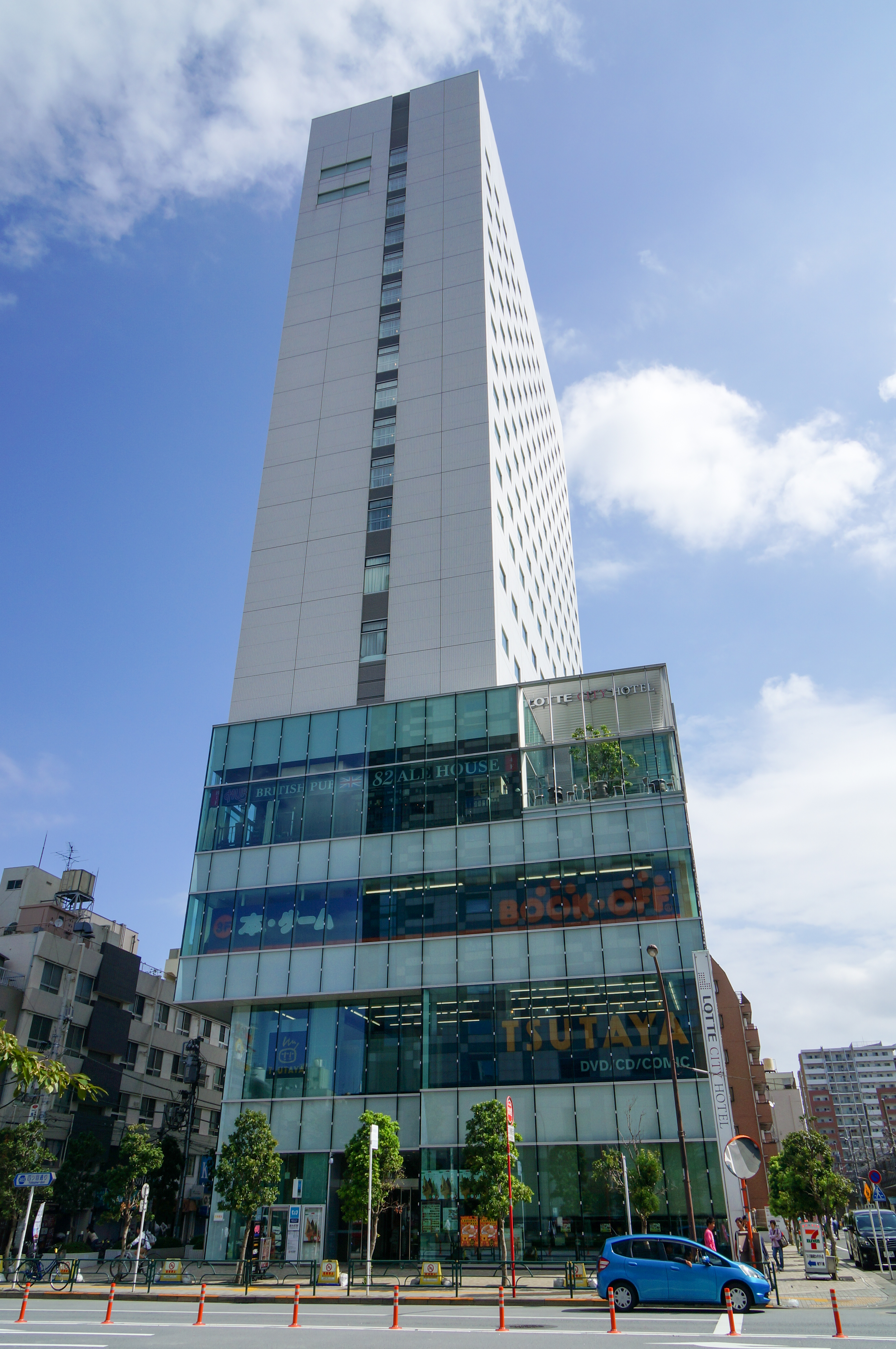 Photograph of the west side view of Lotte City Hotel Kinshicho in Sumida, Tokyo, Japan.